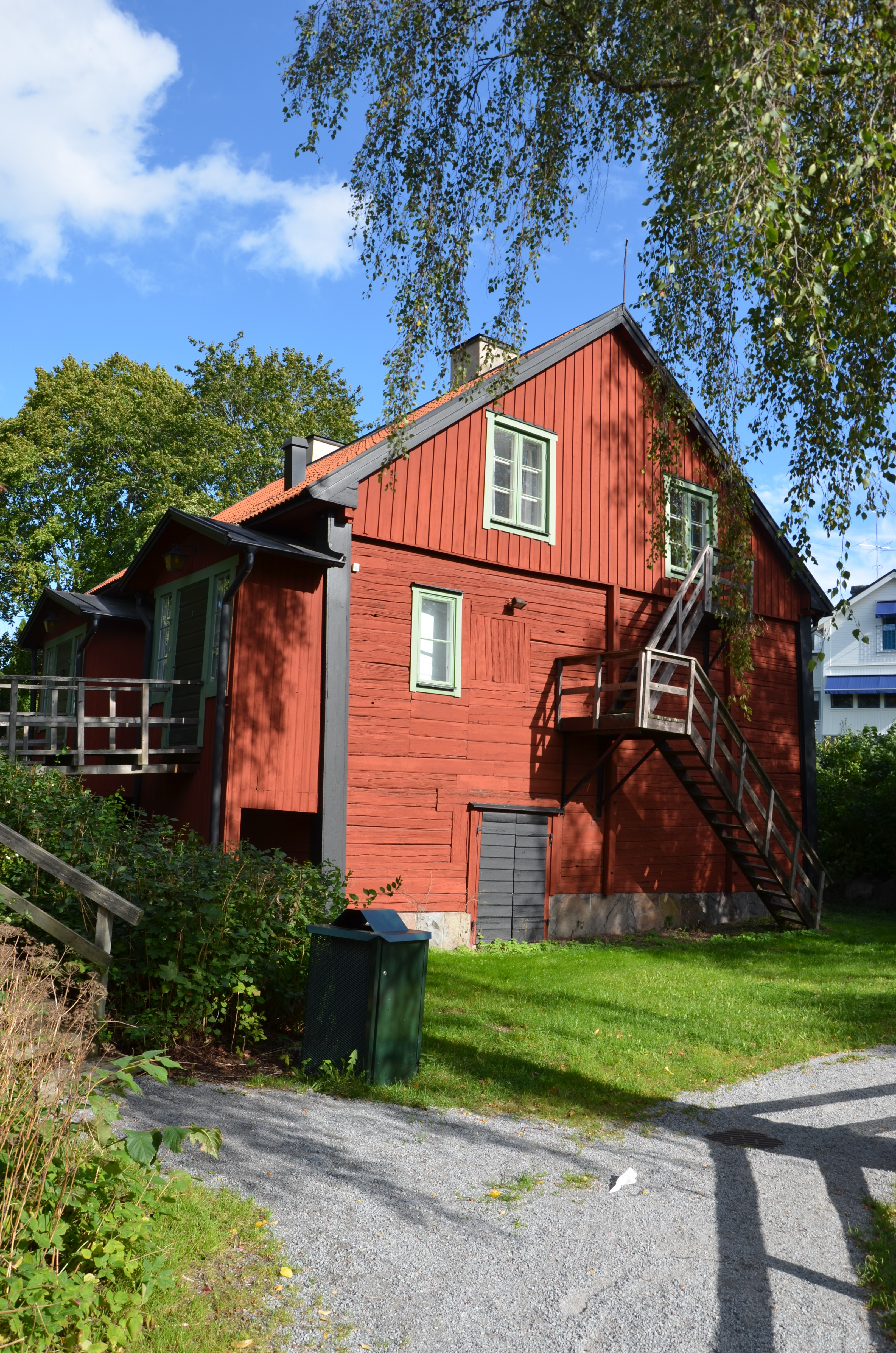 Kvarnstugan, Nora, Danderyd, från väster